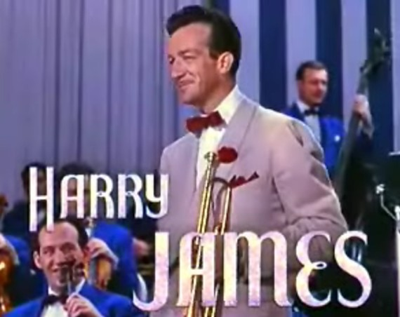 Cropped screenshot of Harry James from the trailer for the film Best Foot Forward